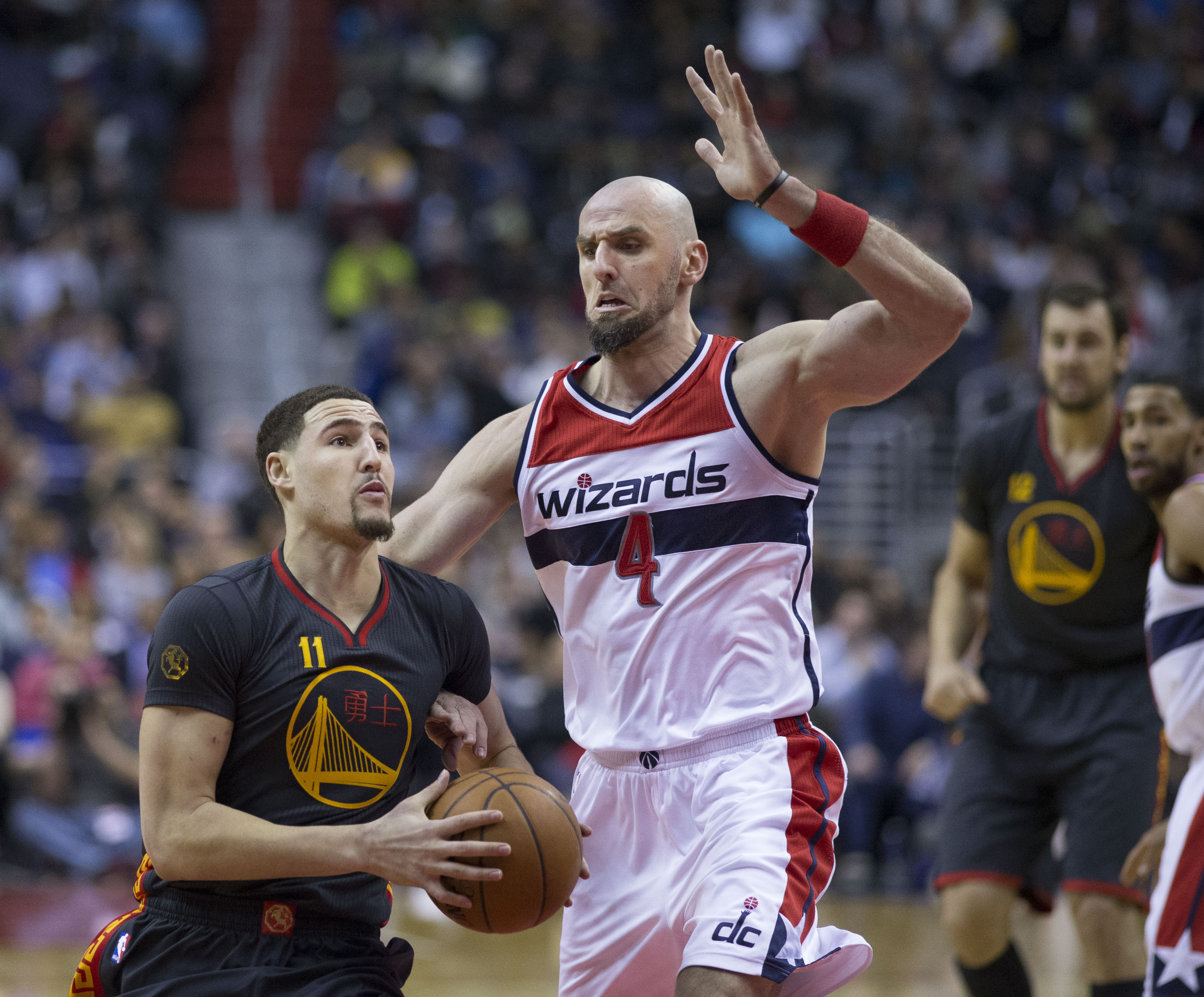 Warriors at Wizards 02/24/15